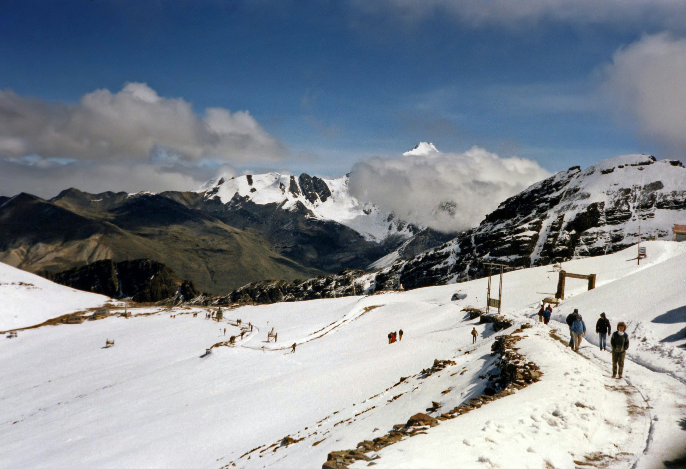 Chacaltaya mountain near La Paz, Bolivia